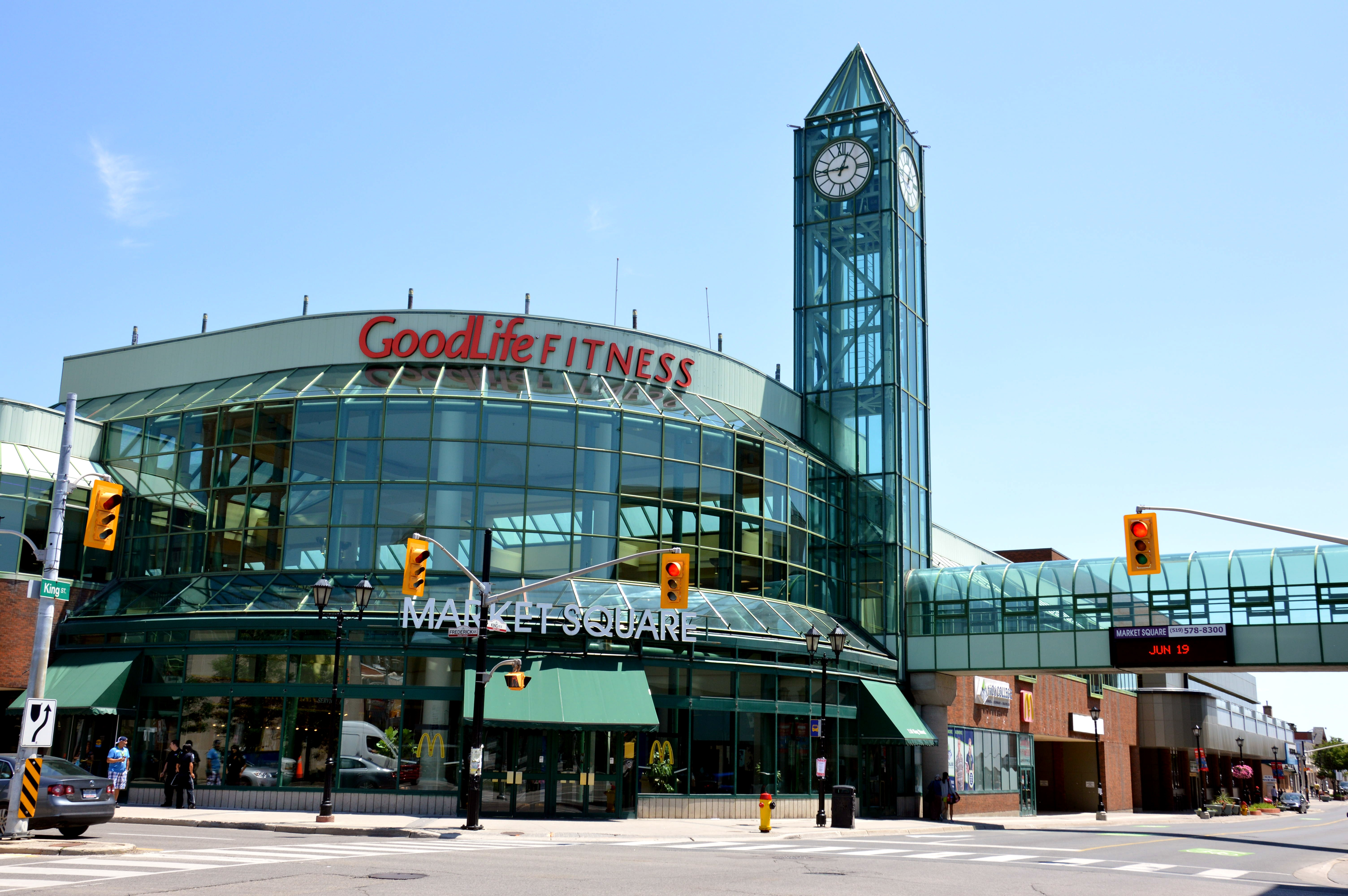 Market Square, a failed urban mall on the corner of Frederick St. and King St East in Kitchener, Ontario, Canada.